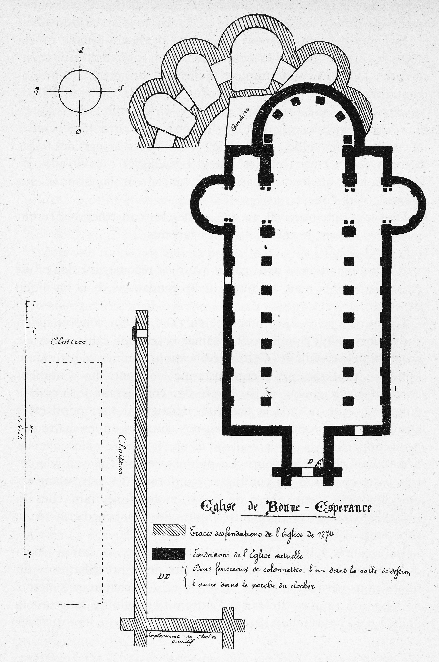 Bonne-Espérance Abbey (Belgium), map of Notre-Dame de Bonne-Espérance basilica (literally Our Lady of Good Hope), neoclassic abbey church (1776) designed by Laurent-Benoît Dewez, with its gothic bell tower (15th century).